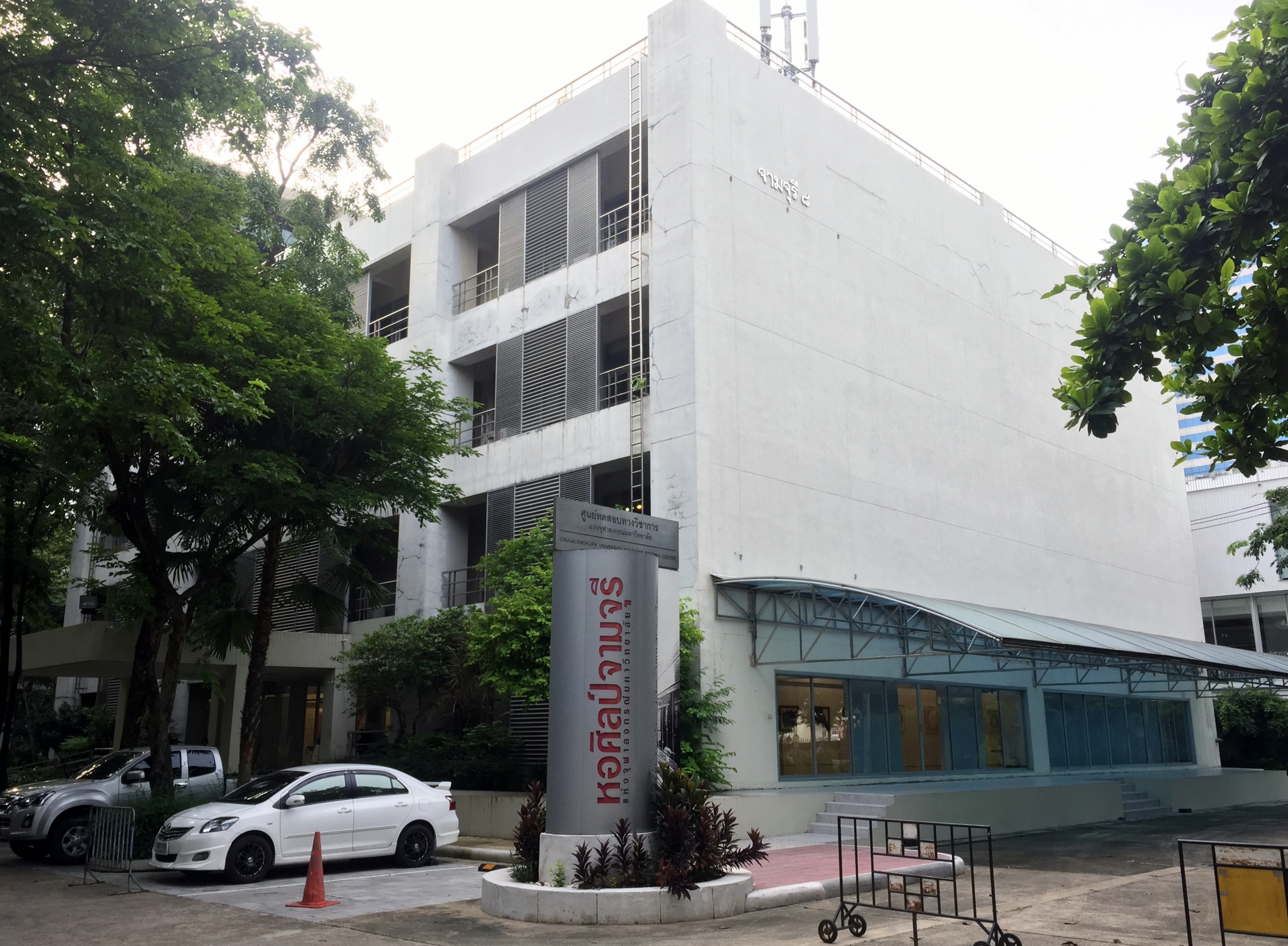 Chamchuri Art Gallery in Pathumwan District, Bangkok